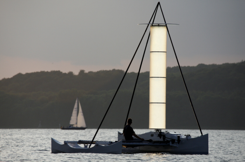 Picture of the rotorship Uni-Kat Flensburg, build up 2005/2006 on the Institut für Physik und Chemie und ihrer Didaktik, Universität Flensburg/Germany (Professor Lutz Fiesser and with students). The ship is a katamaran with a Flettner-Rotor. The picture is dedicated to the public domain (Prof.L.Fie).